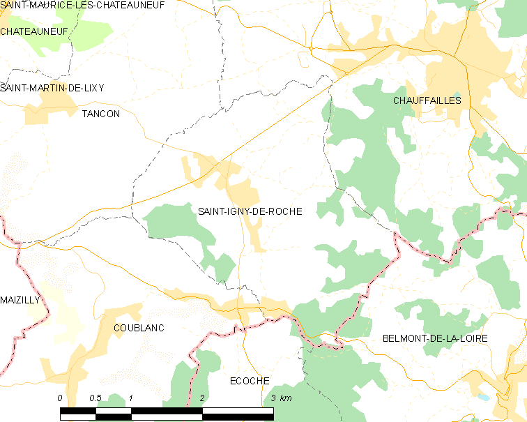 Map of French municipality